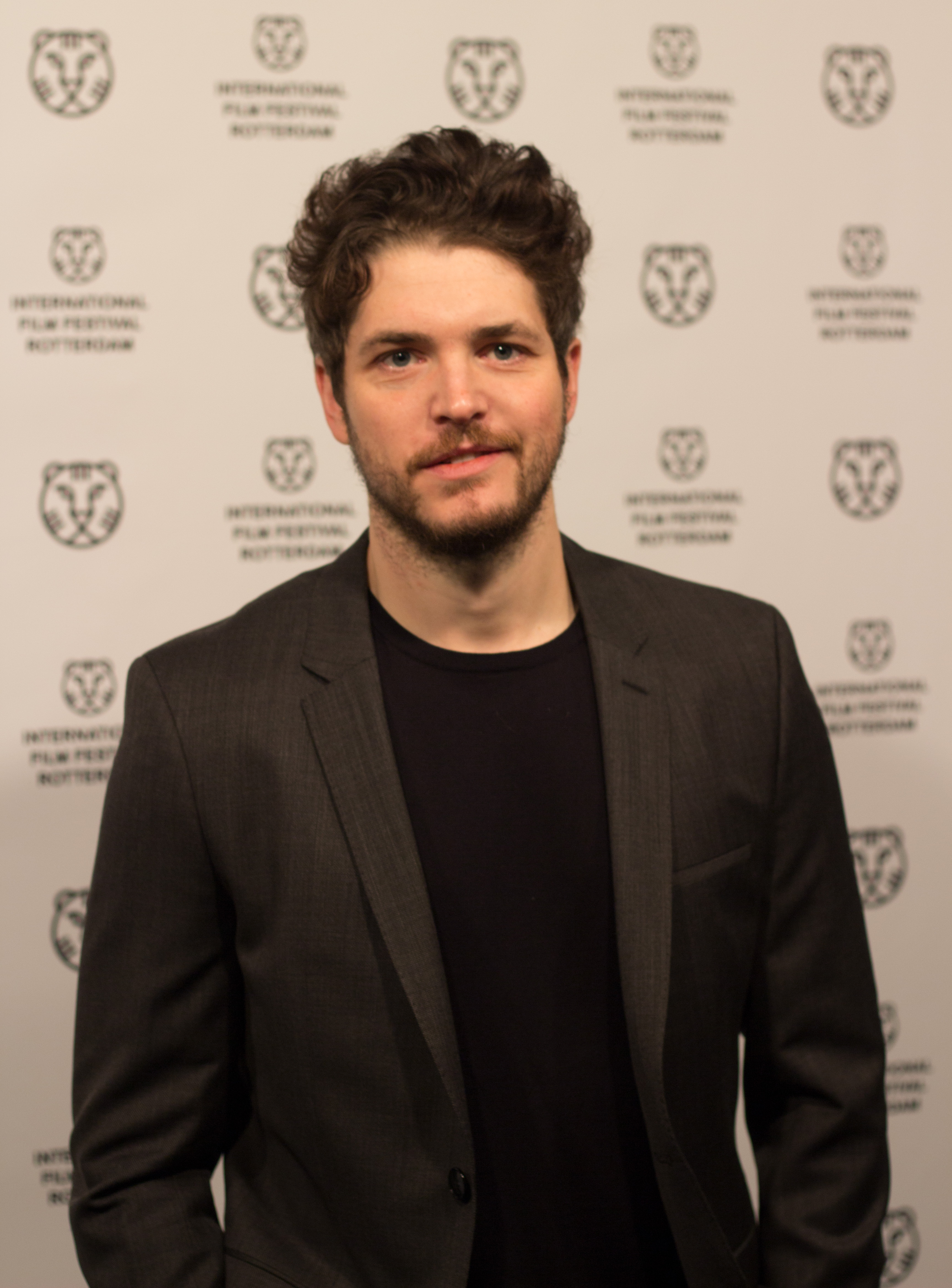 Philip Ettinger promoting "The Evening Hour" at the IFFR 2020